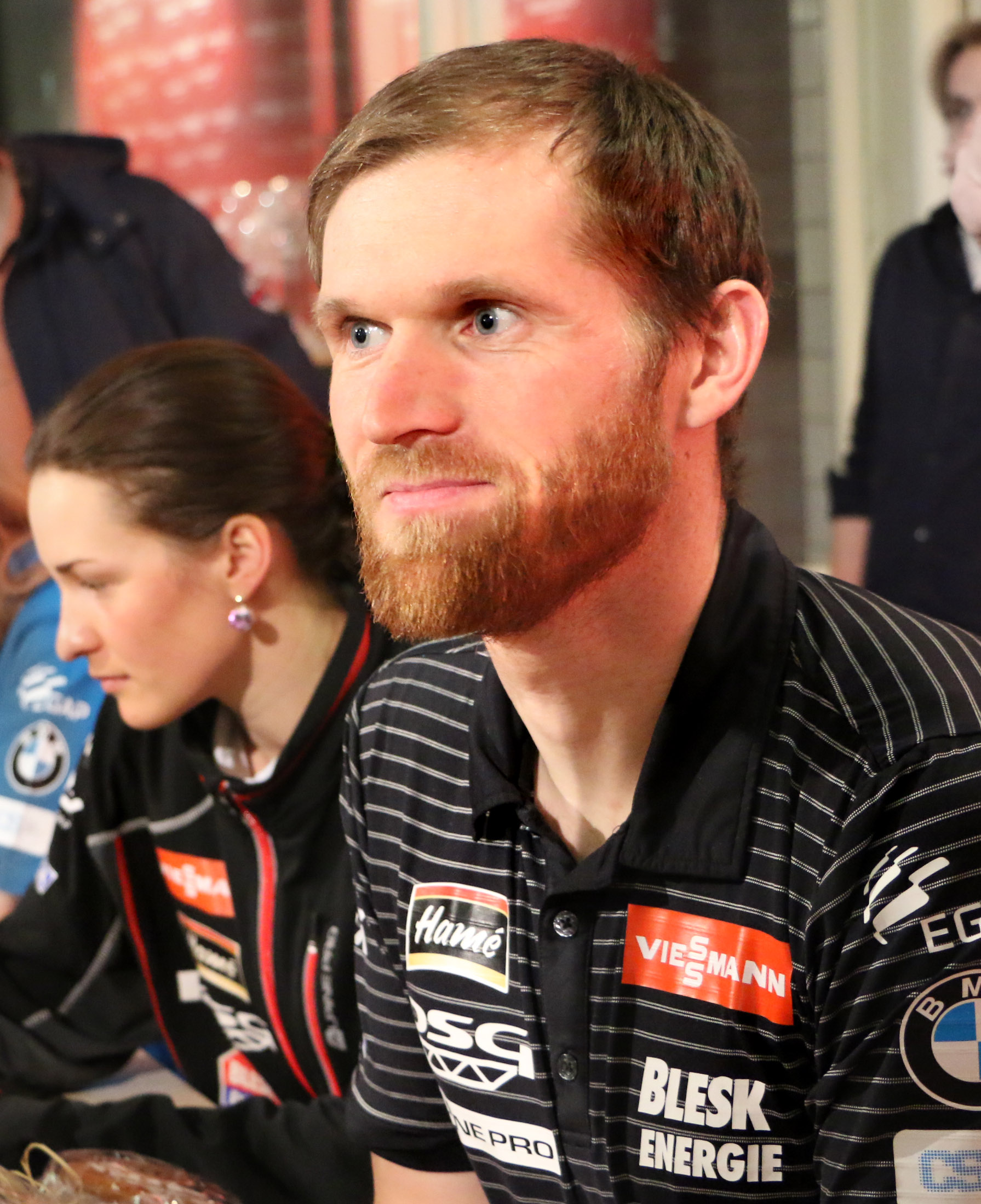 Czech biathlete Michal Šlesingr, 2016